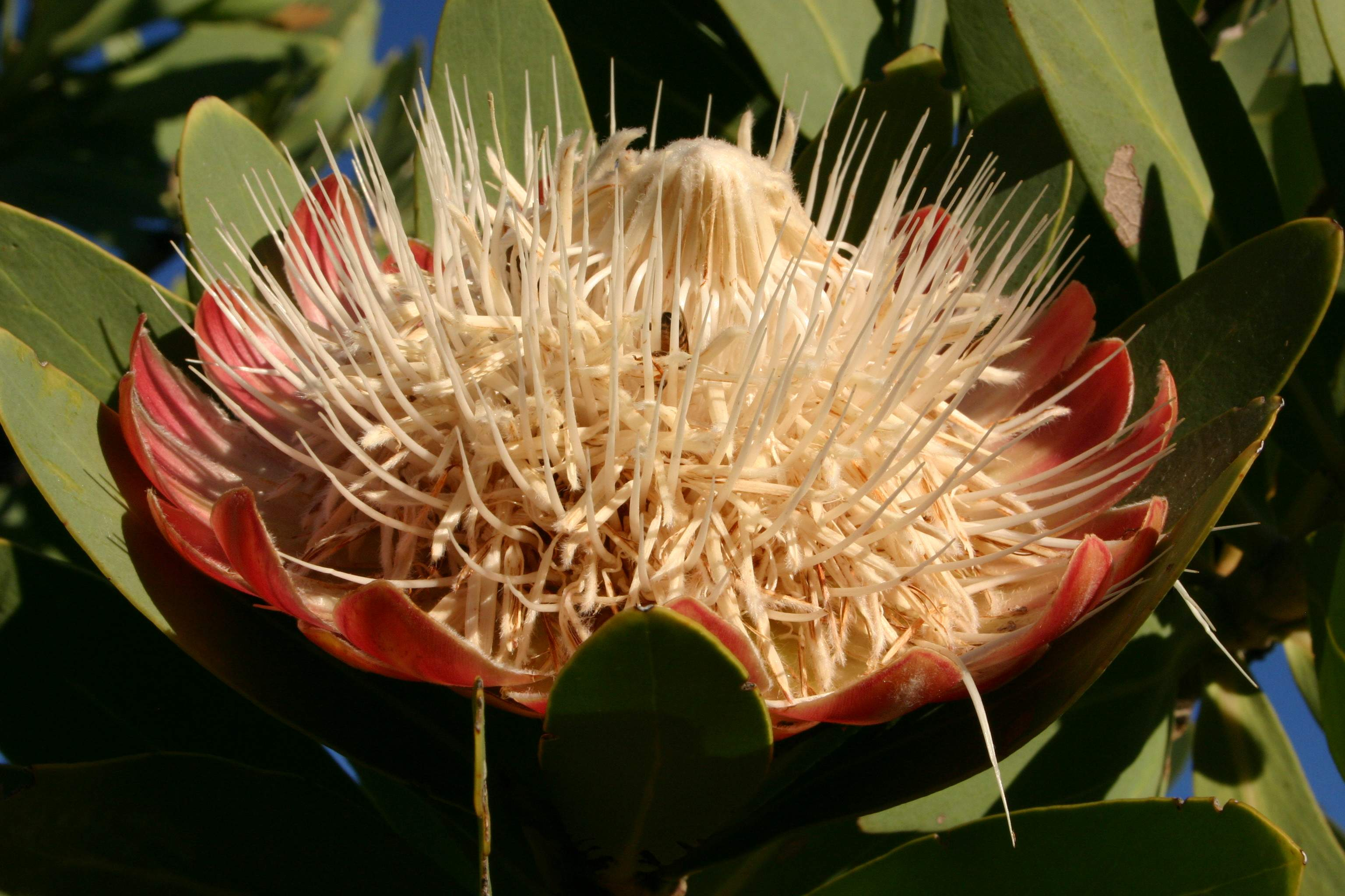 Protea caffra Meisn., flowerhead, Krantzberg near Thabazimbi, South Africa